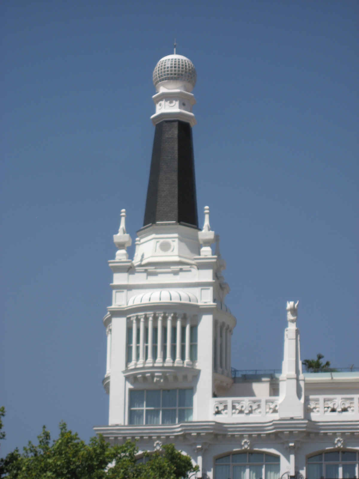 Plaza de Santa Ana, Madrid